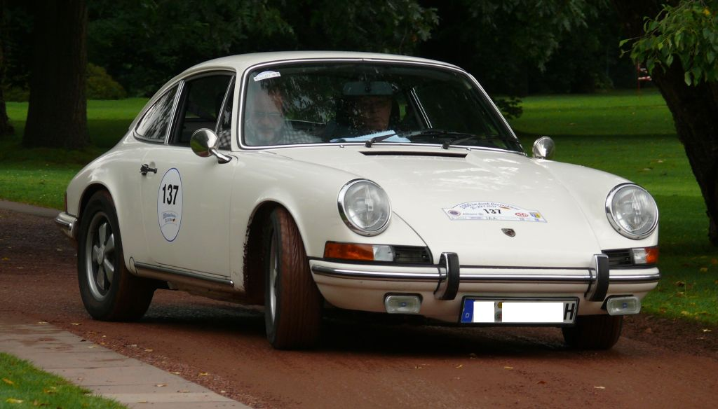 Porsche 911 T Coupé